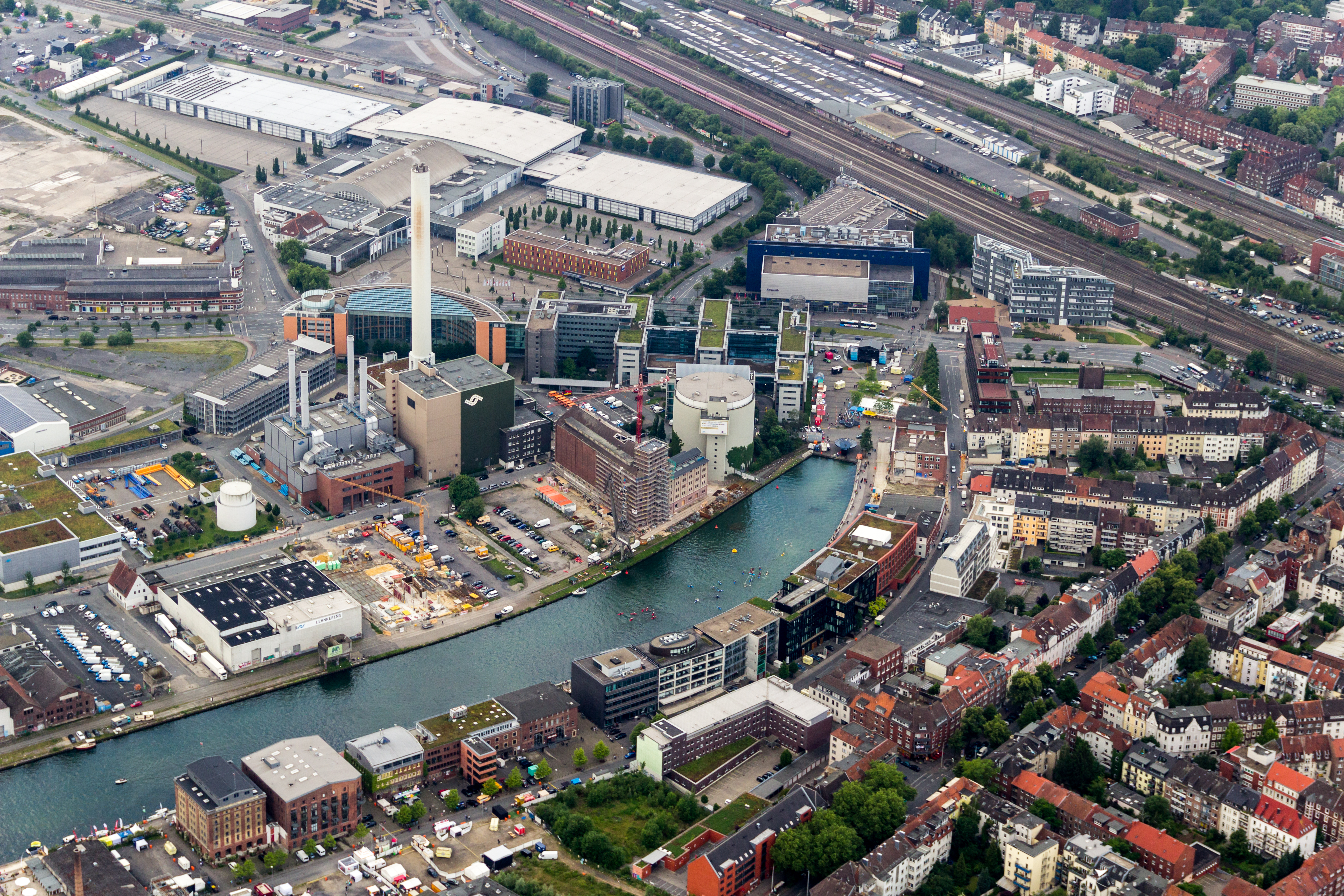 Port, Münster, North Rhine-Westphalia, Germany